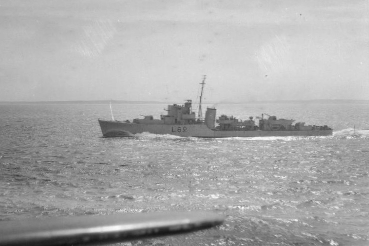 Aerial photograph of British destroyer HMS CROOME underway.